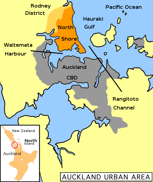 Uploaded from the English Wikipedia, uploaded there by user:Grutness Map of Auckland urban area, North Shore City highlighted (dark orange=populated; light orange=rural areas)